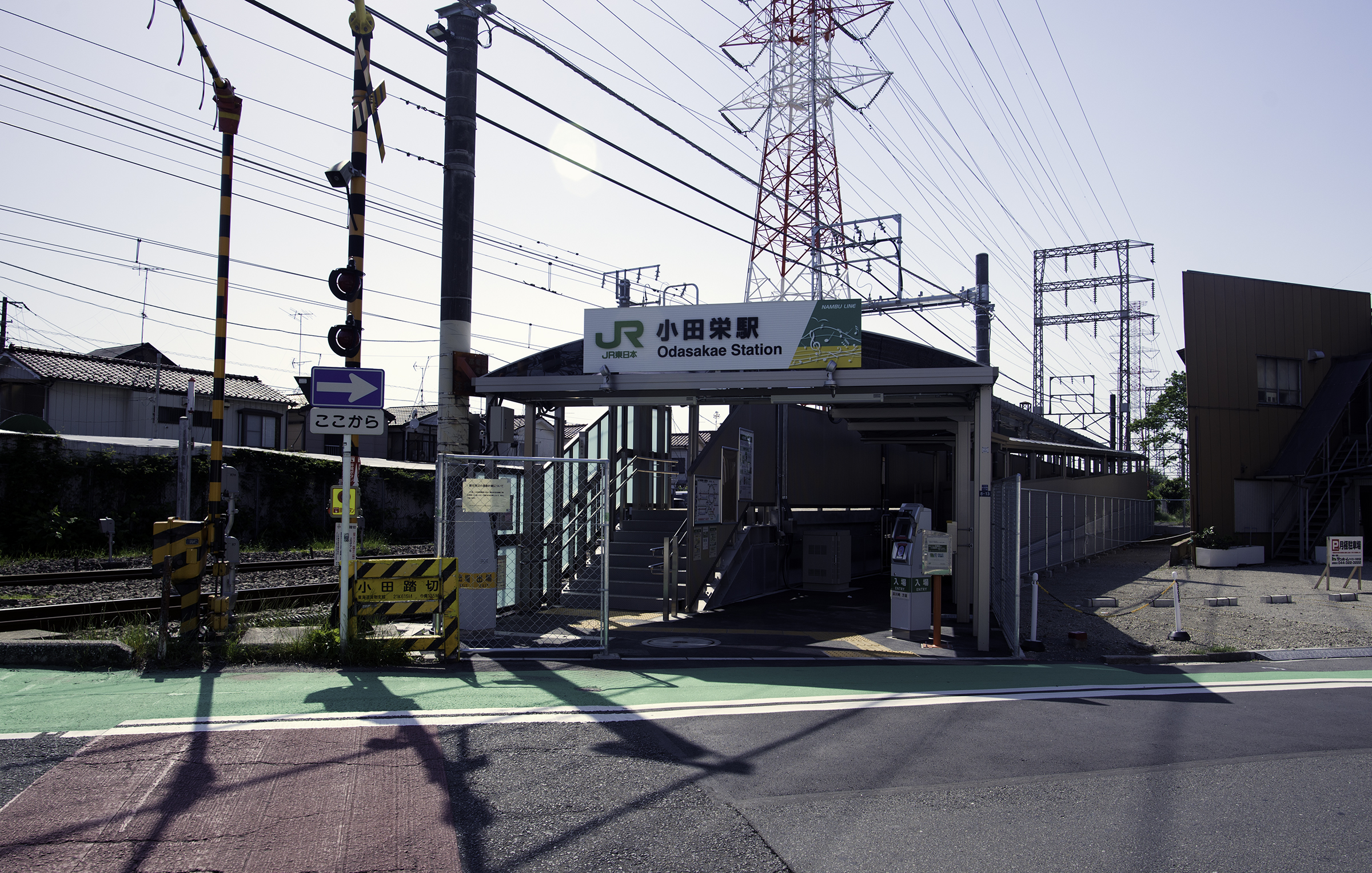 The entrance to the Hama-Kawasaki-bound platform (platform 1) at Odasakae Station on the Nambu Branchline in Kawasaki, Japan